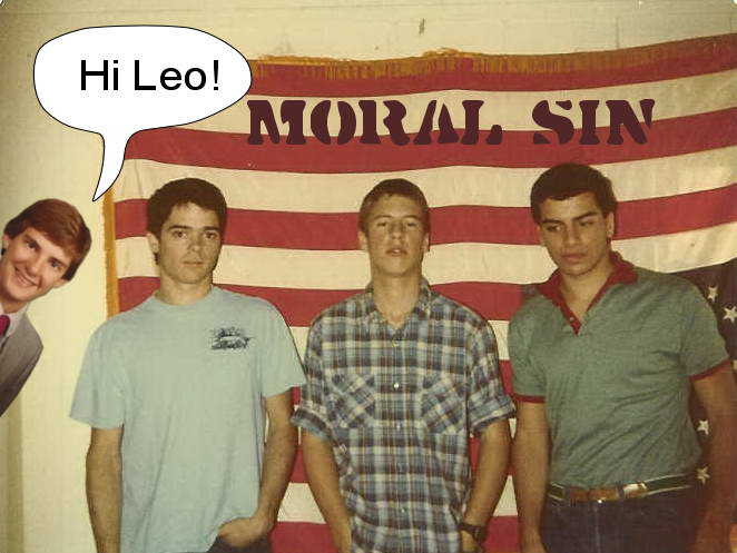 Picture of Moral Sin (right to left) Eric Hana, Hansen Myer, Dave Marriott & Scott Brandon